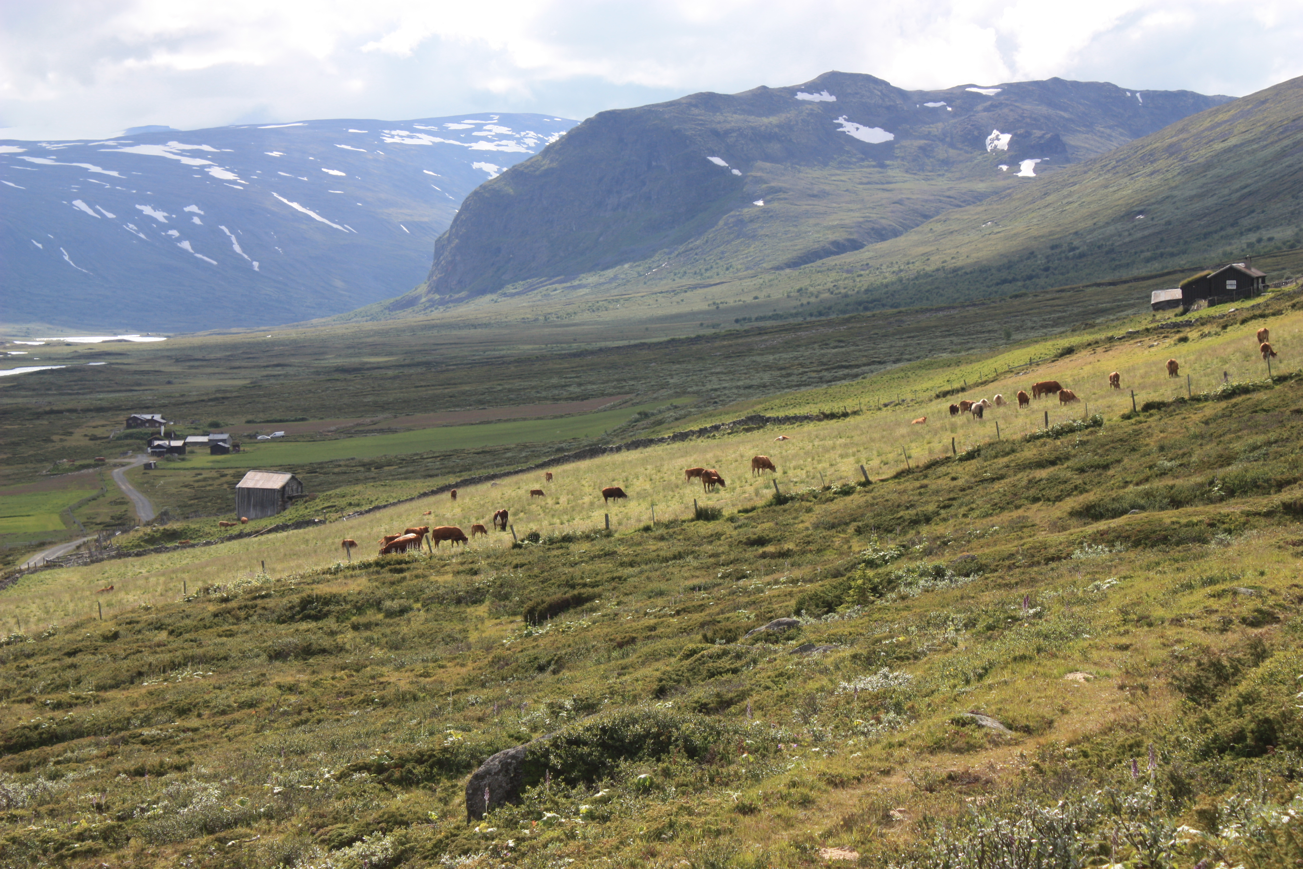 Summer pasture in Jotunheimen. Summer farms (chalets, granges) in the valley Smådalen.